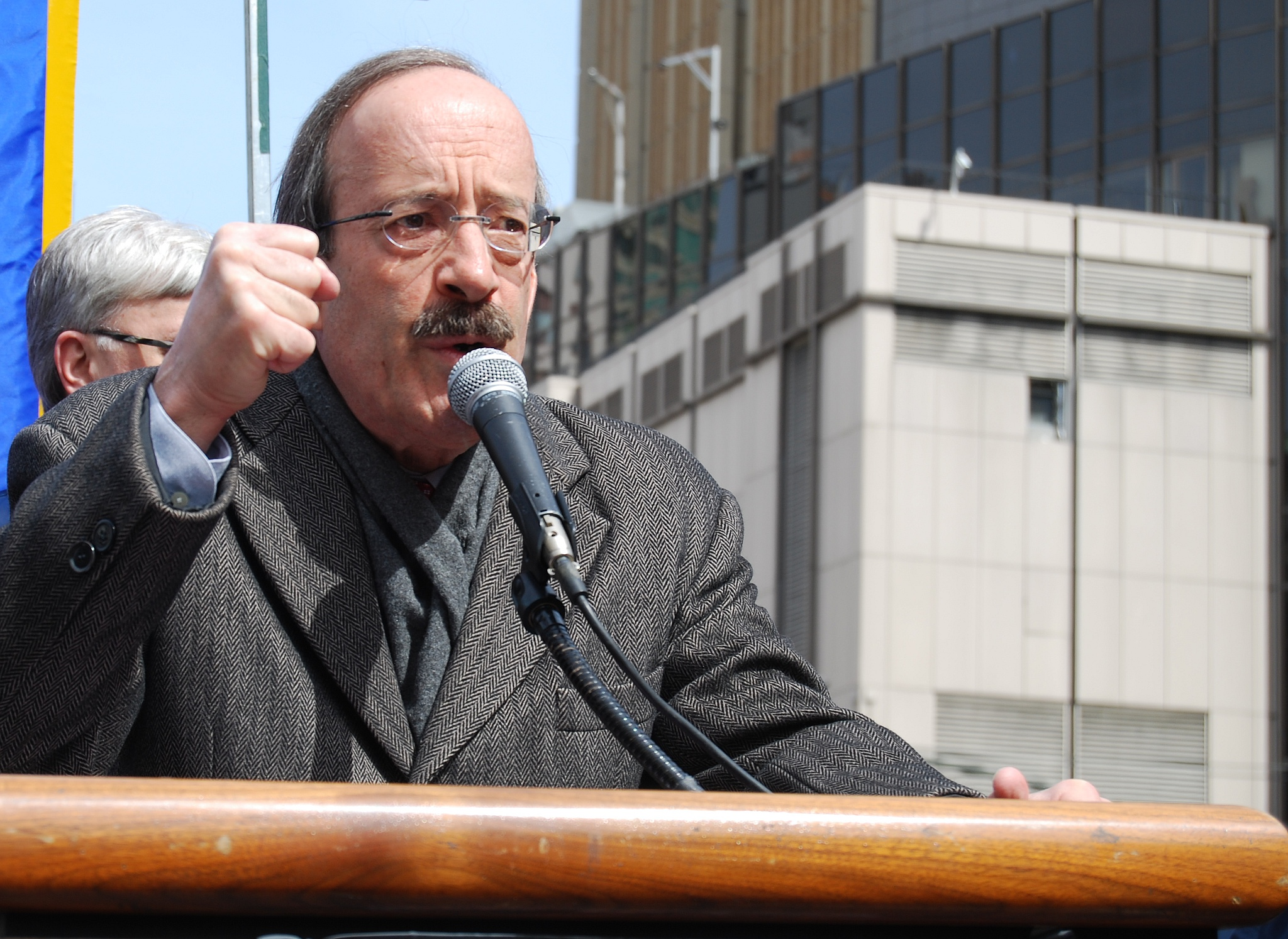 Congressman Eliot Engel (D, NY-16 CD) speaking at a rally organized by the National Association of Letter Carriers as part of their "Delivering For America" campaign (to save six day mail delivery).